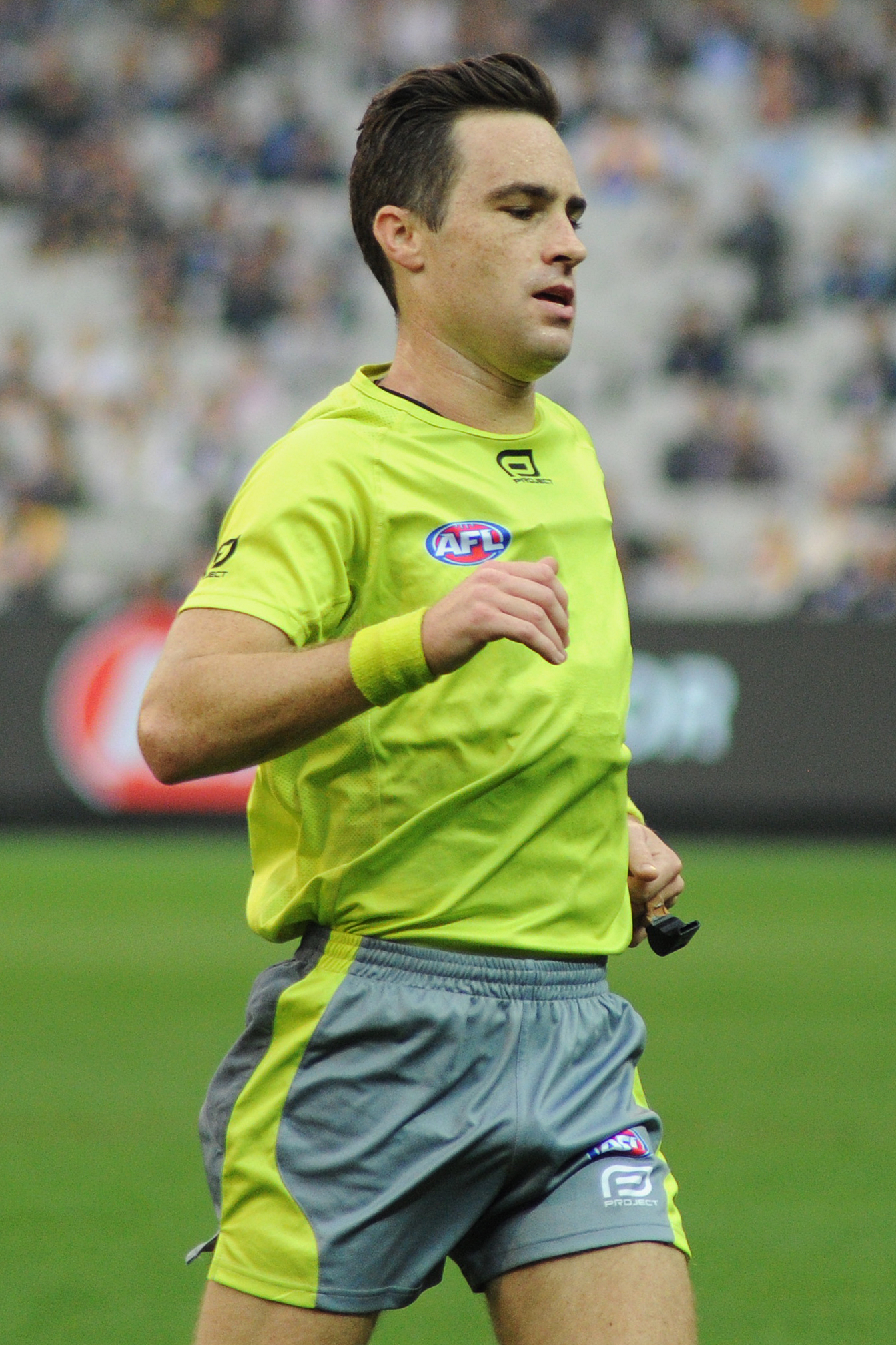 Jacob Mollison during the AFL round five match between Carlton and West Coast on 21 April 2018 at the Melbourne Cricket Ground in Melbourne, Victoria.